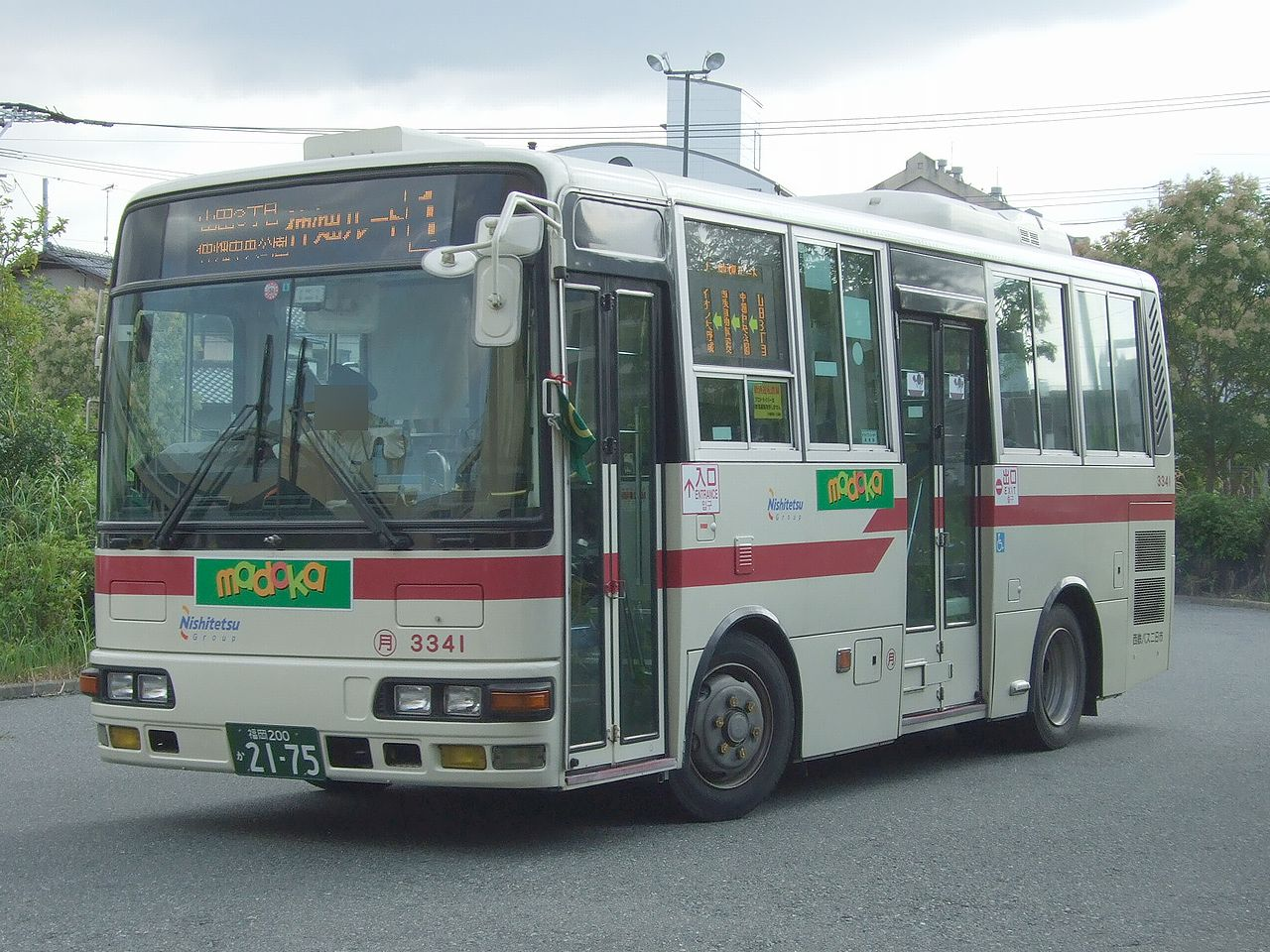 Onojo City Community Bus "Madoka-go"